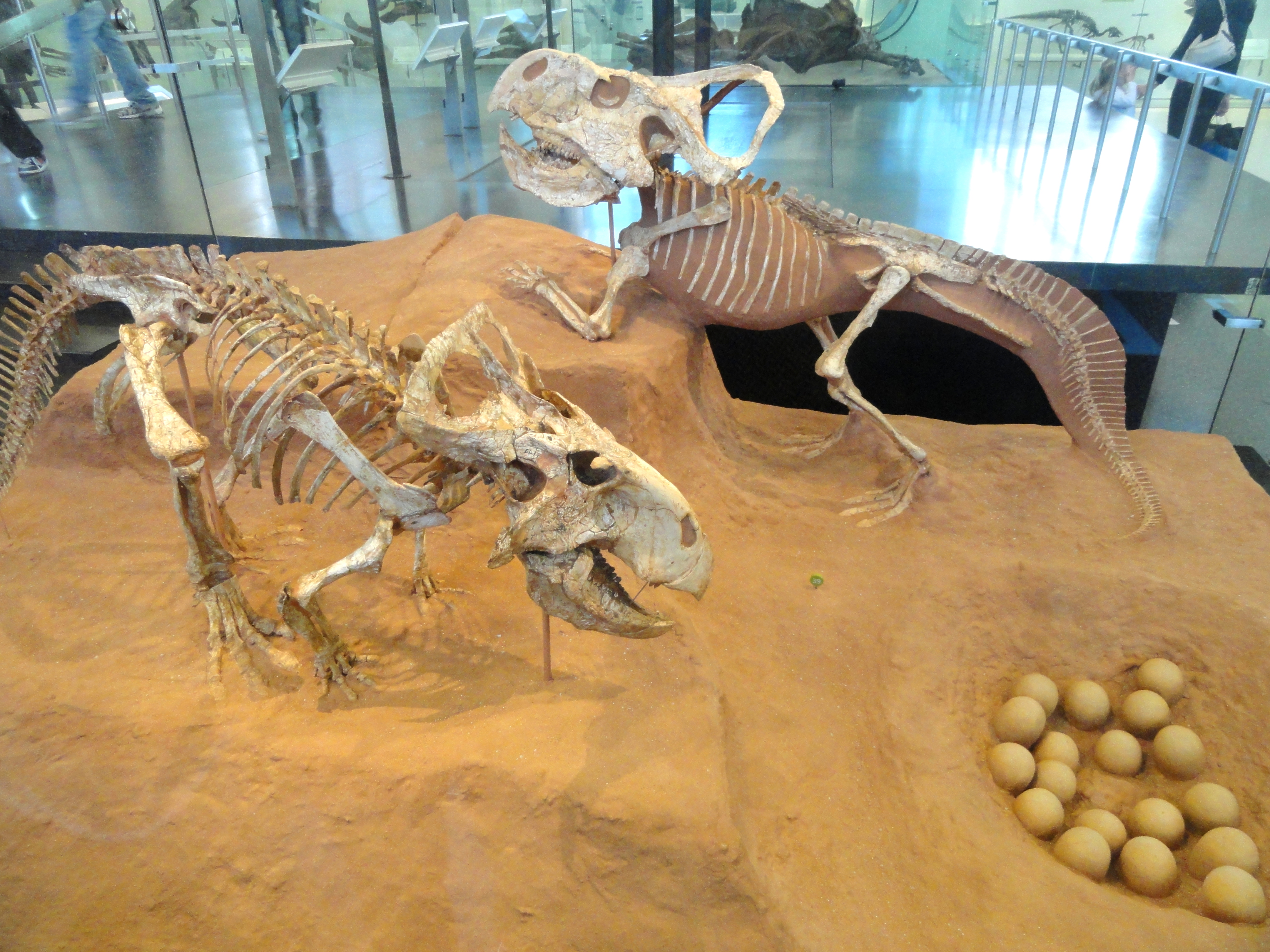 Exhibit in the fossil collection of the American Museum of Natural History, Manhattan, New York City, New York, USA.